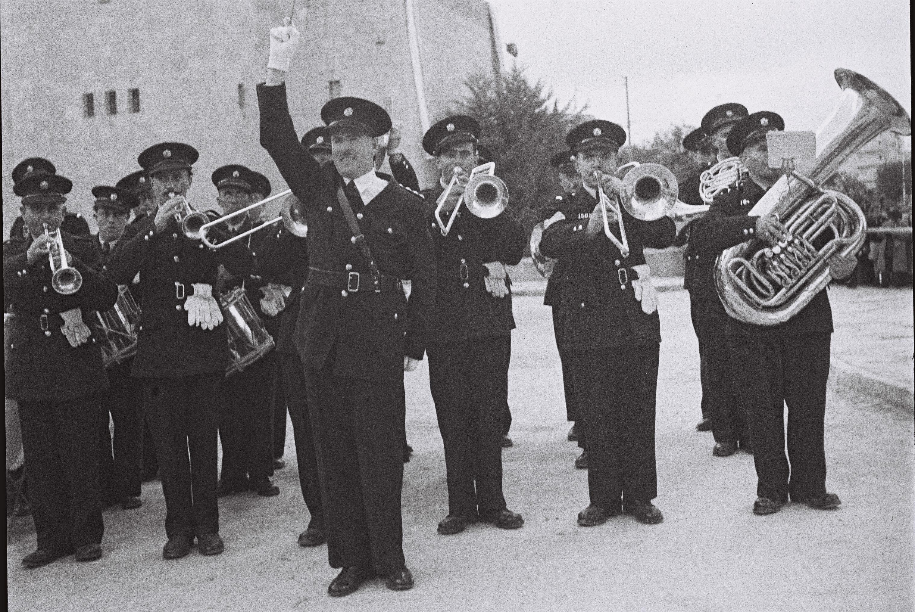 Israel Police band